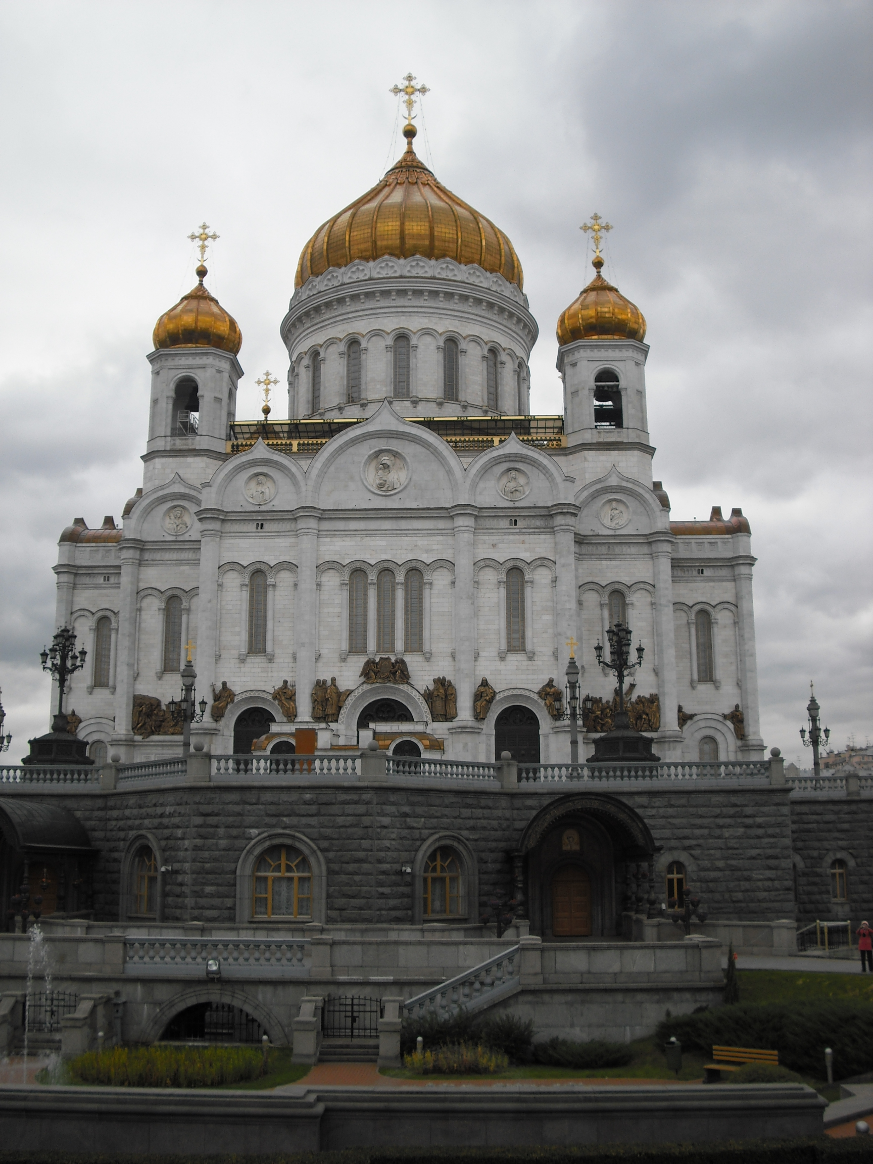 Cathedral of Christ the Saviour (Moscow, Russia)